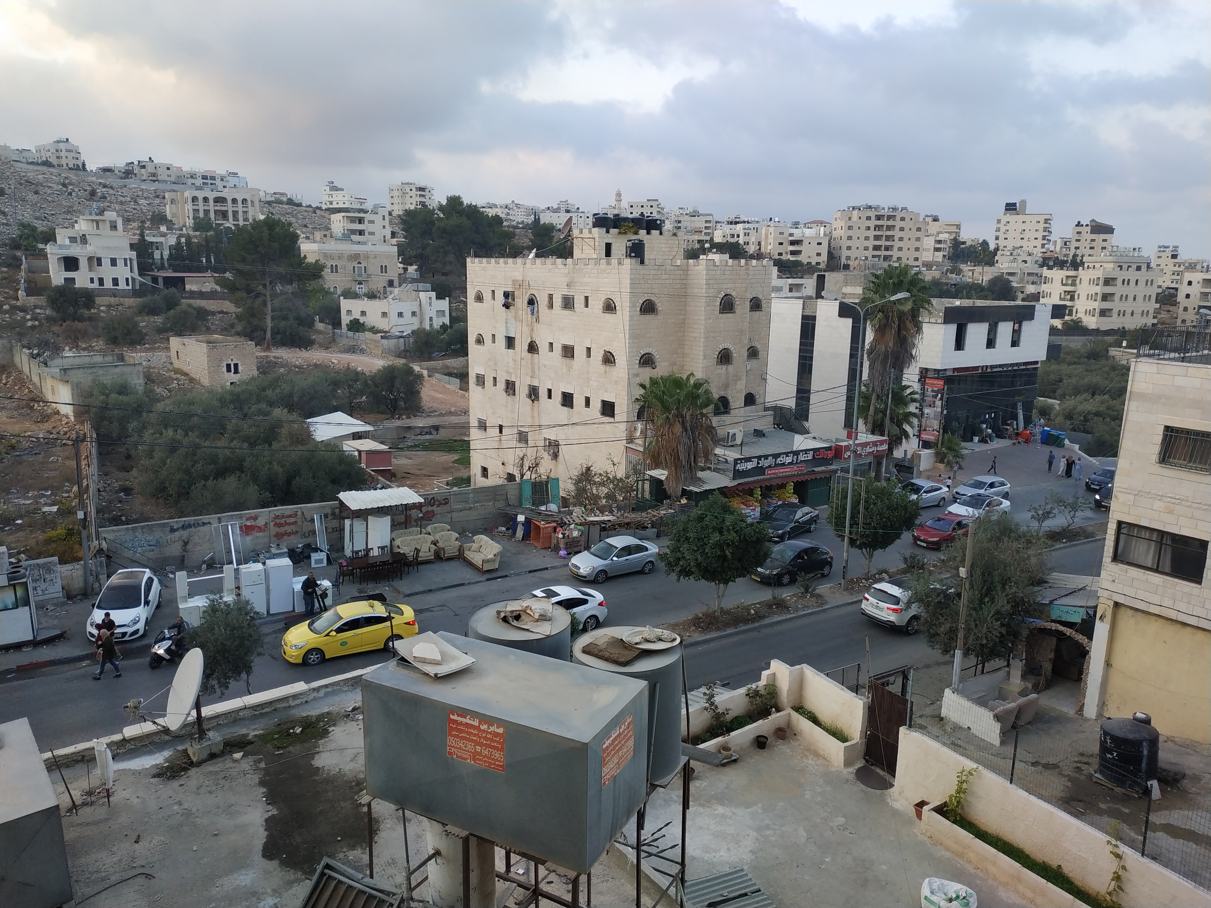 Al-Quds Street - Bethlehem - Hebron from Dheisheh camp